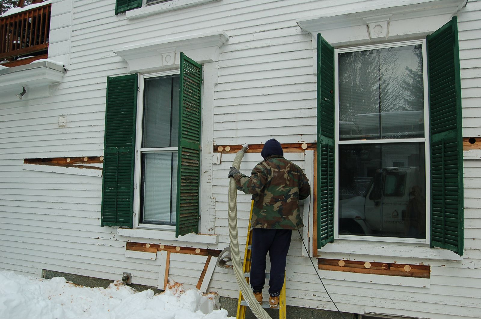 We used Greenfiber Coccoon™ cellulose insulation on the walls